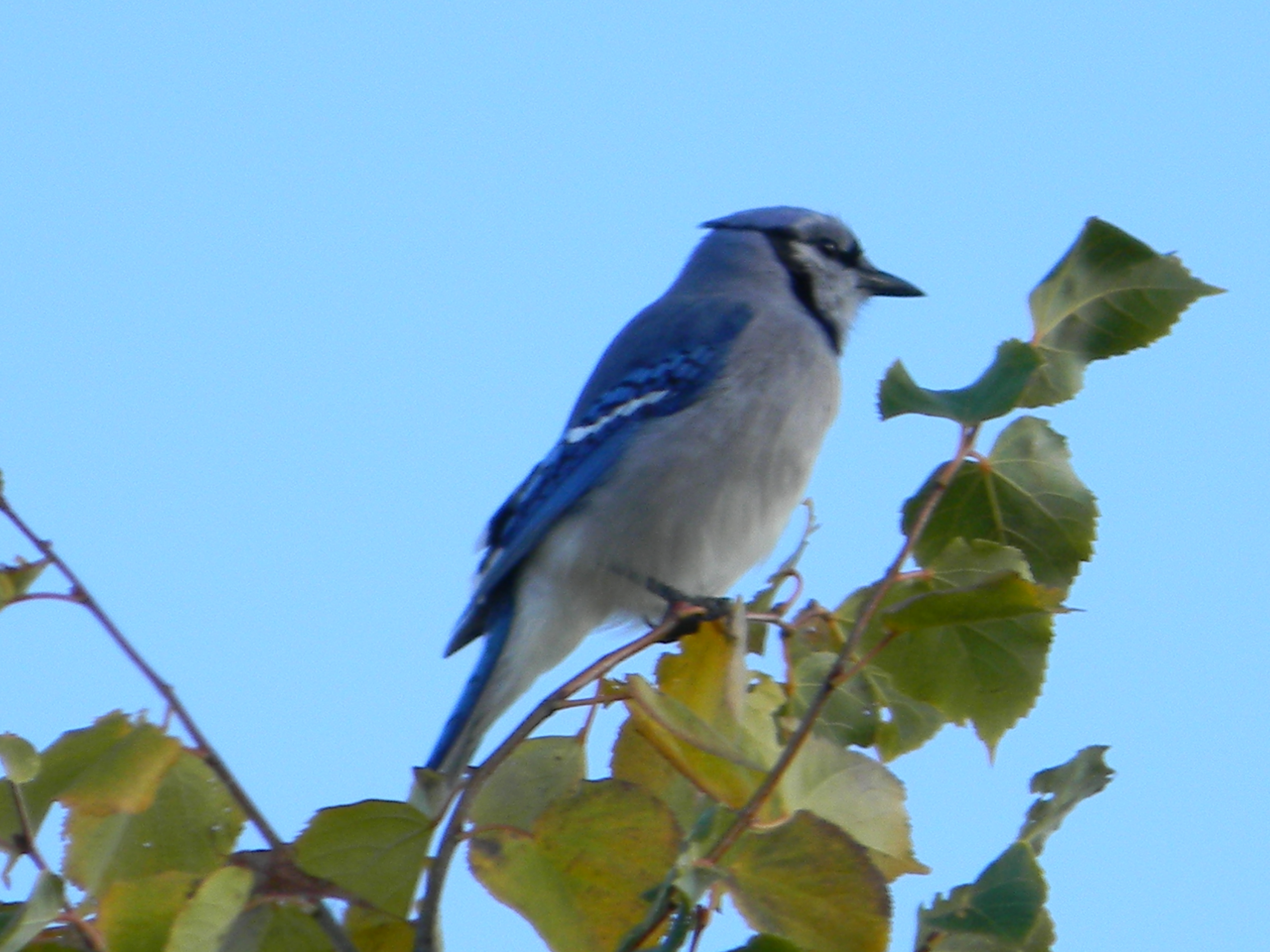 Cyanocitta cristata bromia - Picture taken in South Ontario, Canada